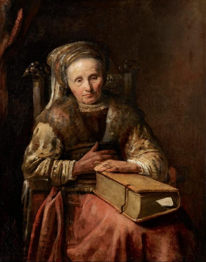 This image is available from the Netherlands Institute for Art Historyunder digital ID 208401. This tag does not indicate the copyright status of the attached work. A normal copyright tag is still required. See Commons:Licensing.